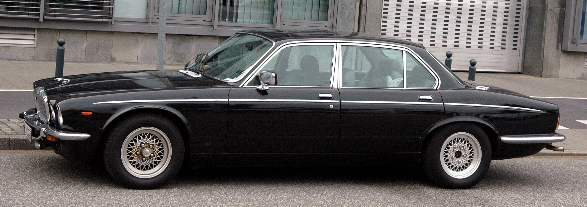 A Daimler Double Six in a Series III XJ body.